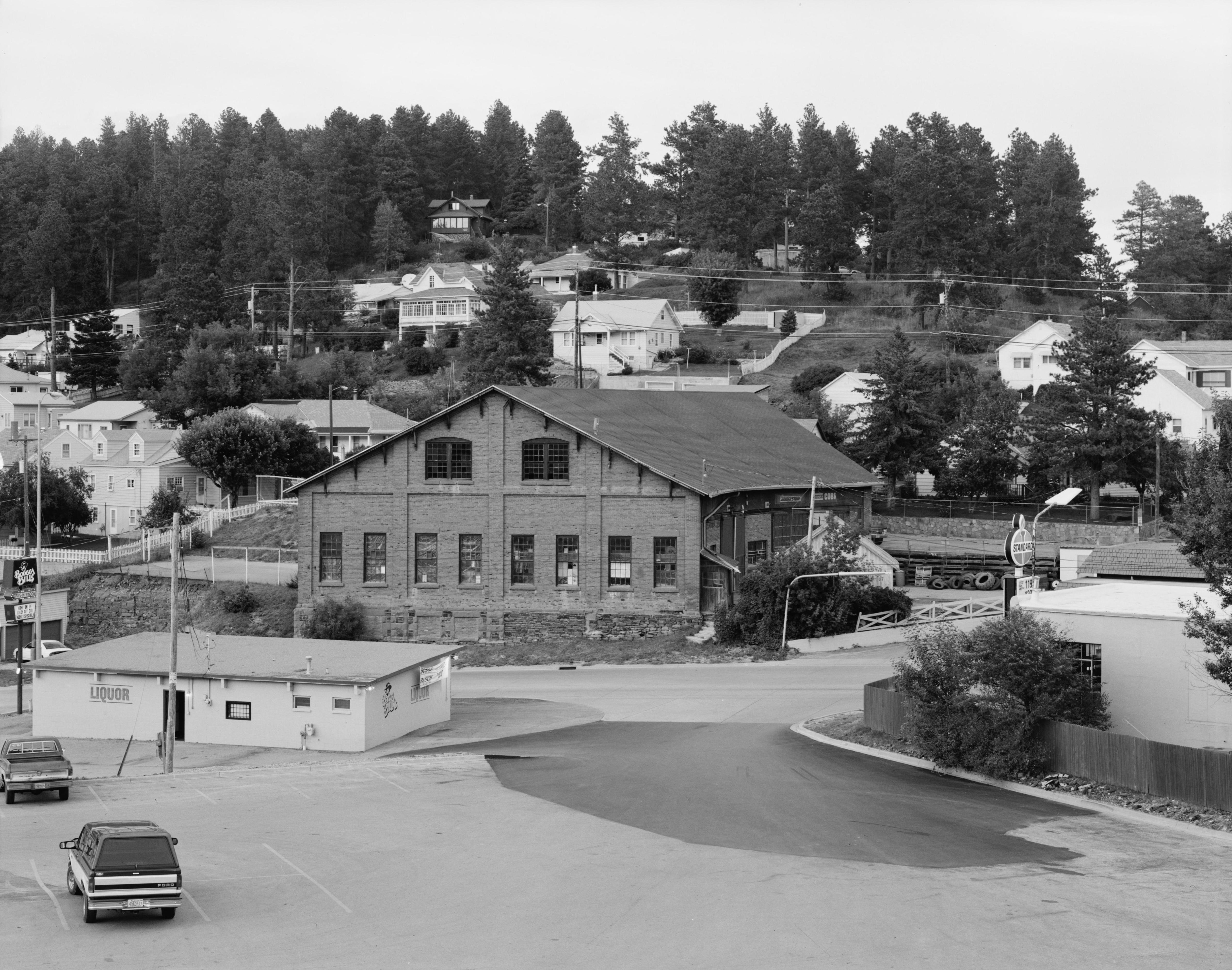 Buildings on the western side of Lead, South Dakota, United States, centering on the railroad roundhouse. Like the rest of Lead, these buildings are part of the the Lead Historic District, a historic district that is listed on the National Register of Historic Places.